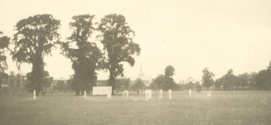 The 1907 University of Pennsylvania cricket team competing in a match against Rugby School at Rugby, England.